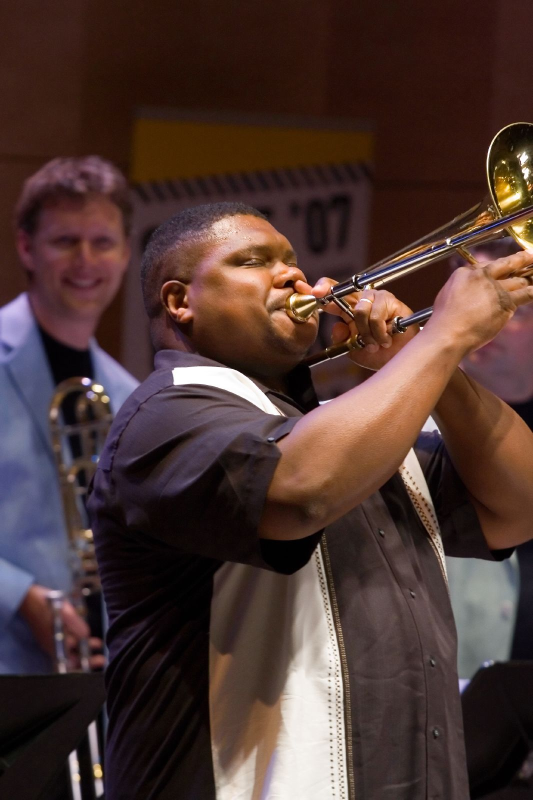 Wycliffe Gordon, looks like he's playing a nice melody or something. But, as you can see on the face of Remko de Jager at the back, Mr. Gordon was playing a darn good improvisation solo with a lot, and I assure that it was a lot, damn screaming high F's!!!